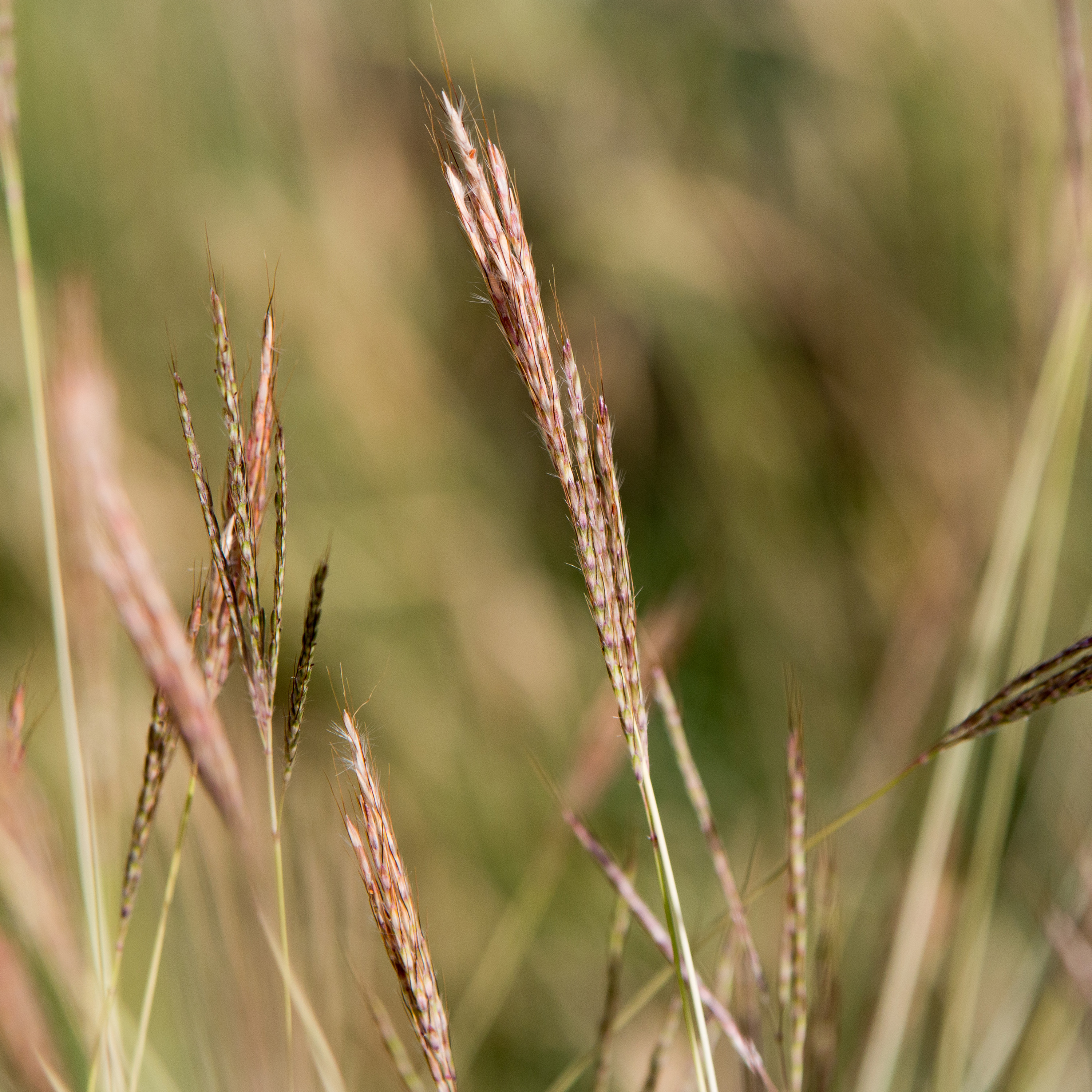 Inflorescence of a plant of broom grass Bothriochloa ischaemum